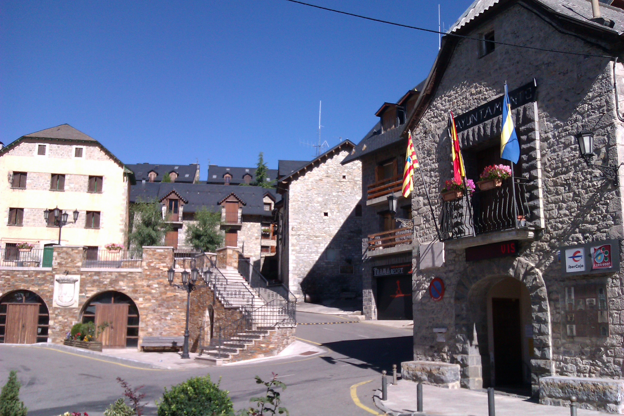 Main square Tramacastiella de Tena